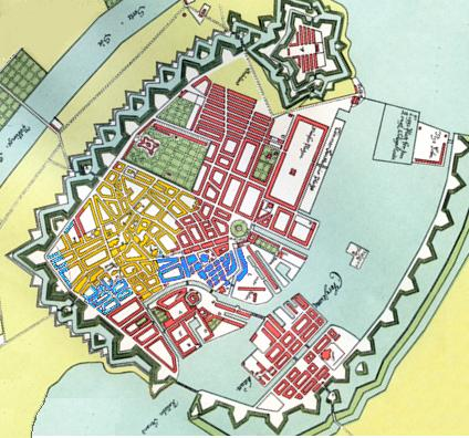 The map is rotated app 110 degrees compared with the original so north is up Areas in the corners are filled up with matching colors and are therefore different from the original whre they where either outside the map or legend. Buildings that where damaged in the 1795 fire are marked with yellow. Buildings that where damaged in the 1795 fire are marked with blue. Areas with buildings that burned down in 1728 and 1795 are marked with yellow. Unharmed buildings are marked with red